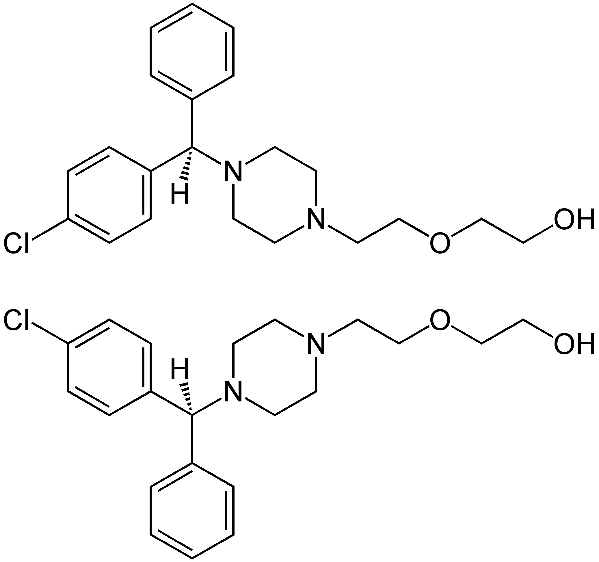 (±)-Hydroxyzine_Structural_Formulae